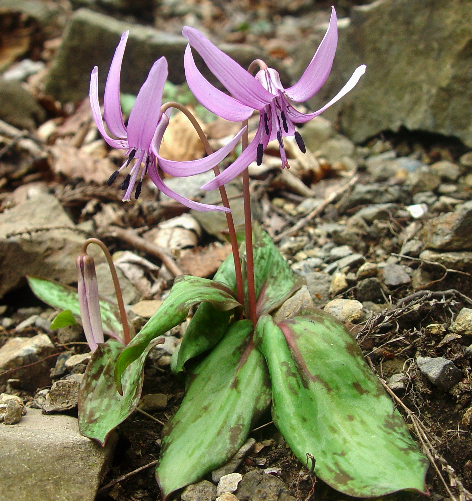 Erythronium_japonicum_in_Mount_Sho